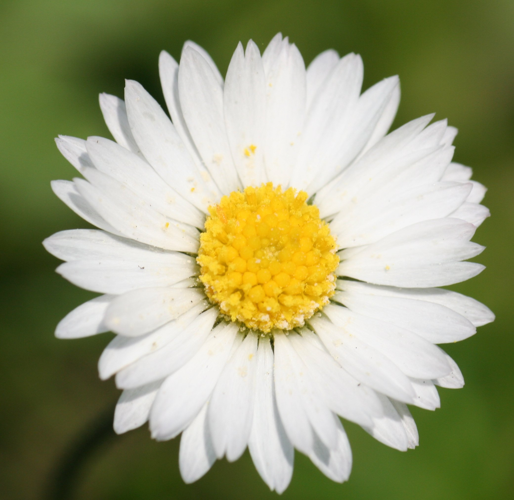 An English daisy found growing in the grass